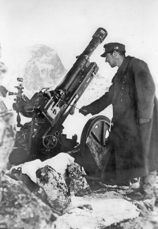 On 21 January 1943, a mountain howitzer in action during the German invasion of the Caucasus at a 3,000 m altitude in snow, Soviet Union.